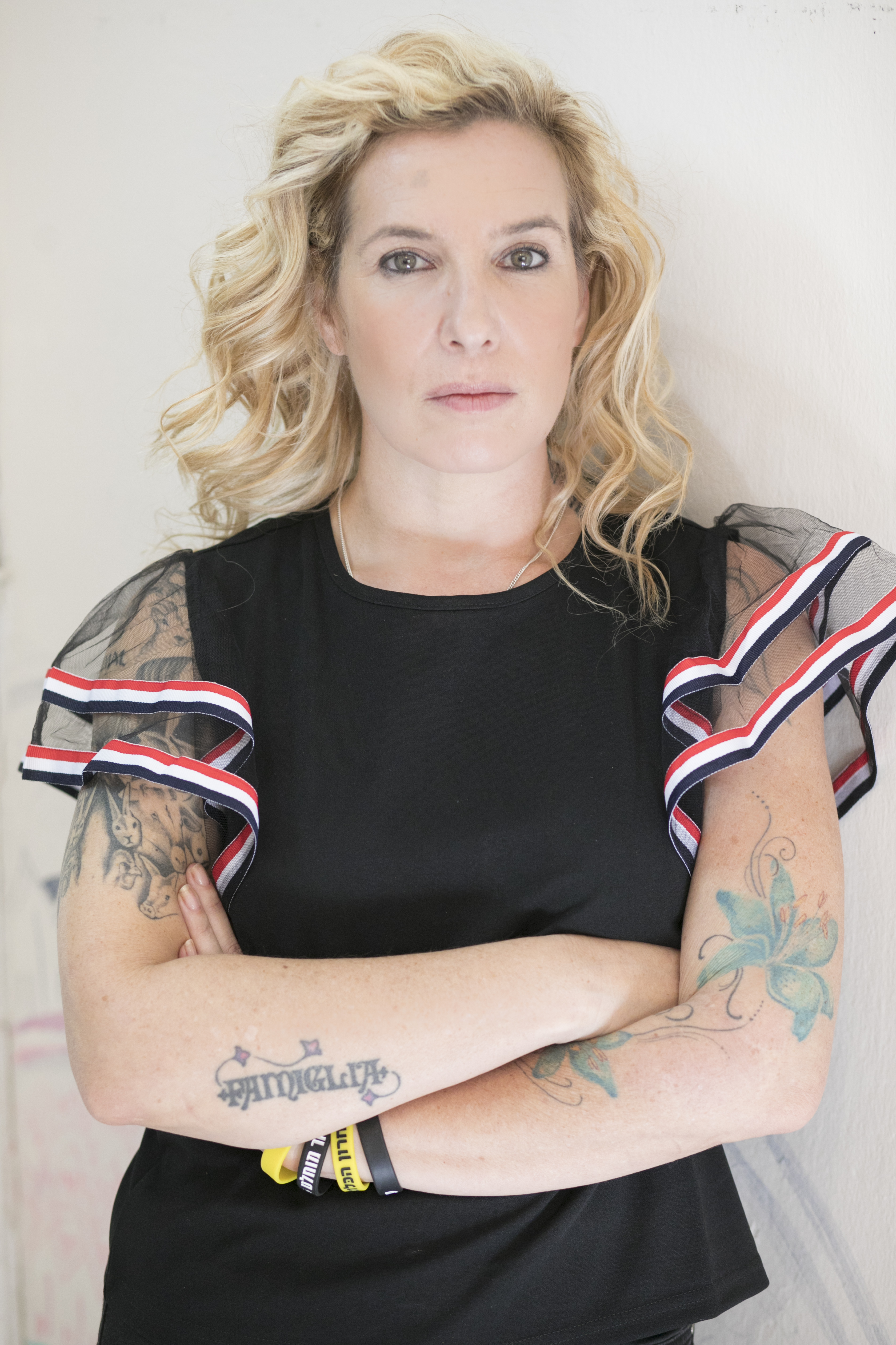 Depicted person: Tal Gilboa – Israeli animal liberation activist and vegan advocate